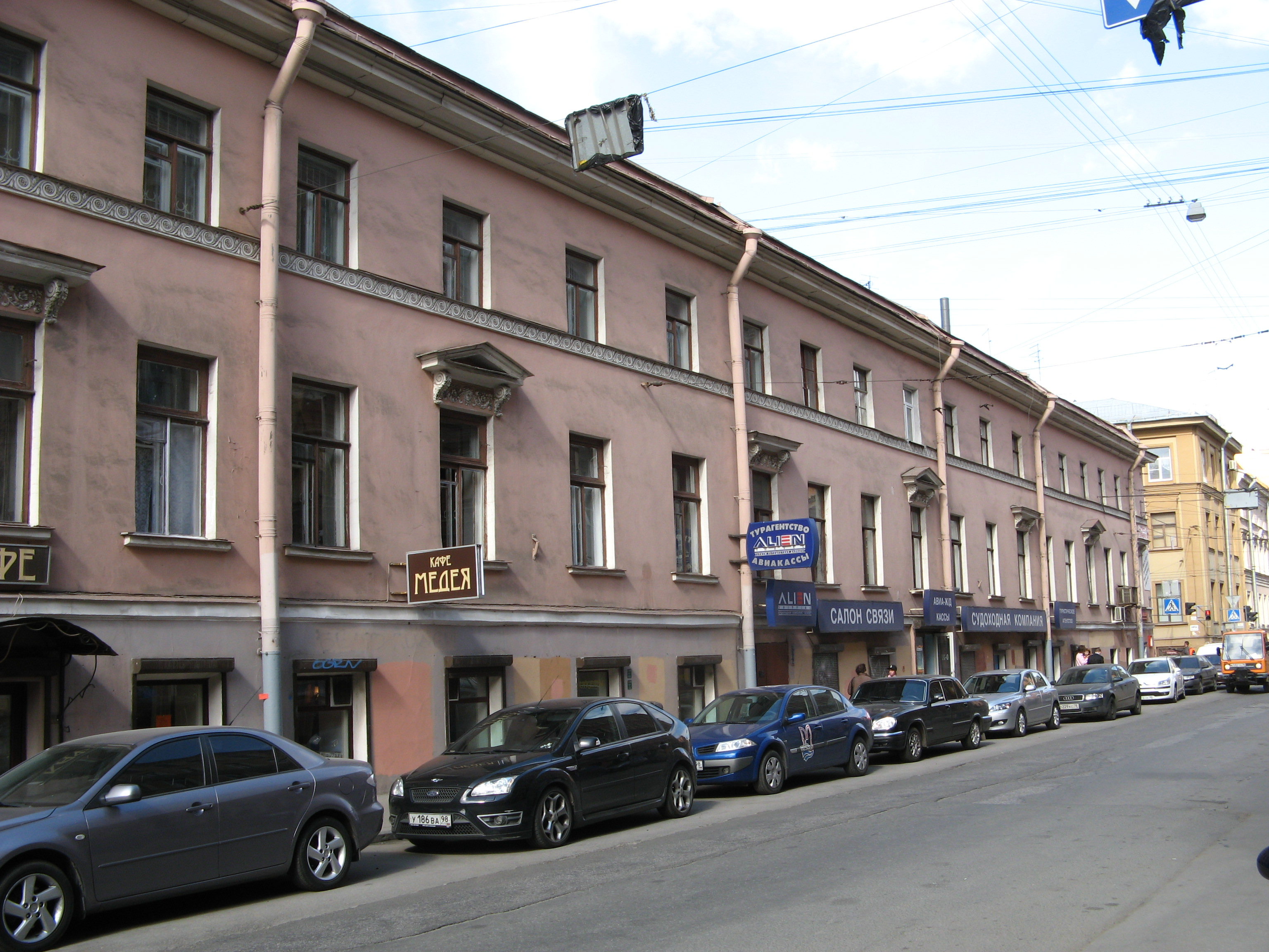 Kazanskaj street, 21 (Saint-Petersburg)